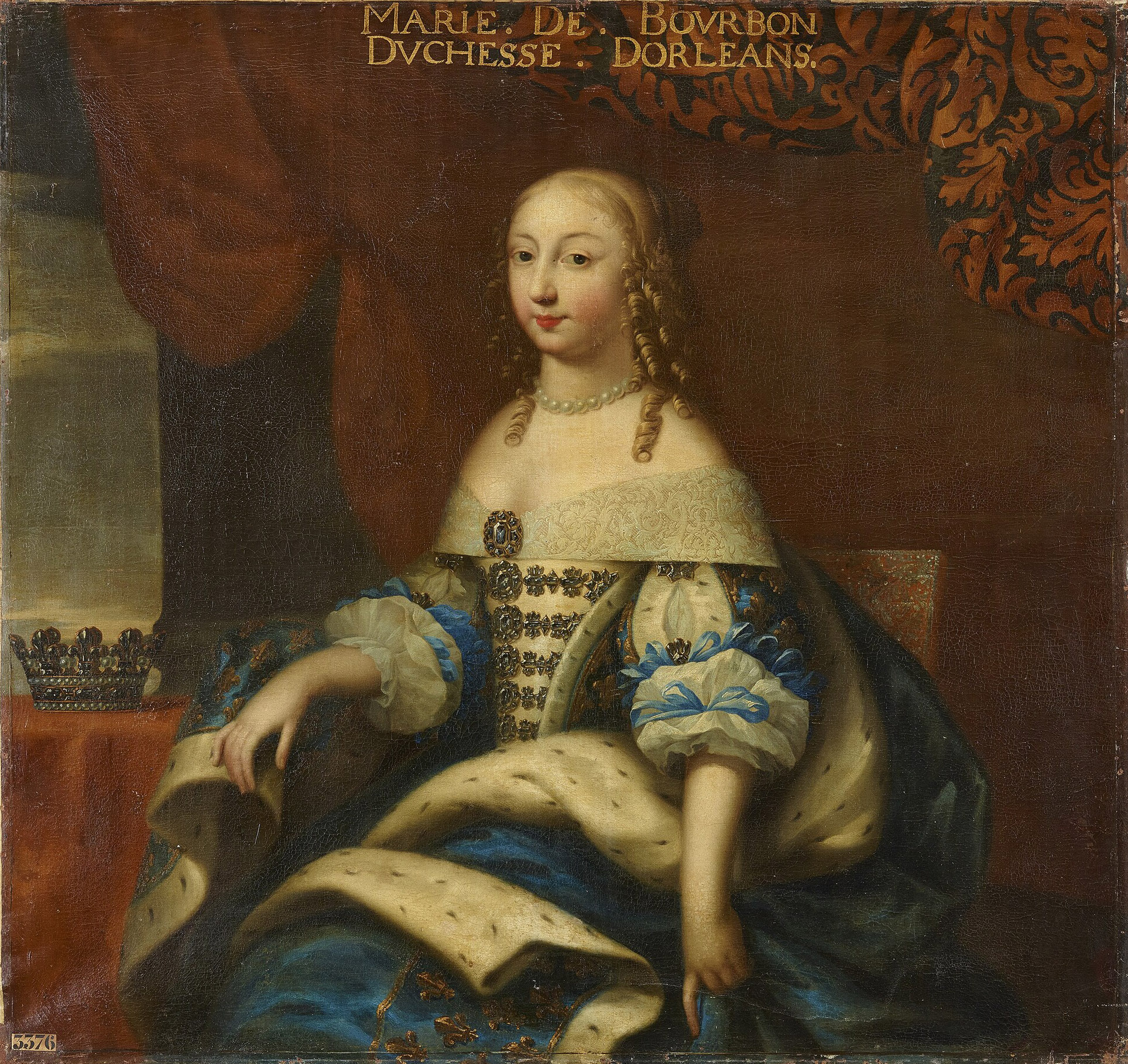 Marie de Bourbon, Duchess of Orléans, Daughter of France by marriage.